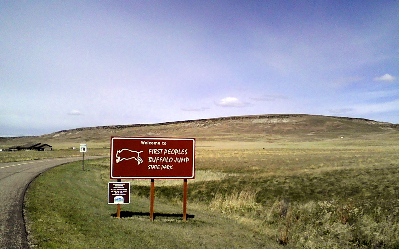 FIrst People's Buffalo Jump State Park, buffalo jump and visitor center, near Ulm, MT